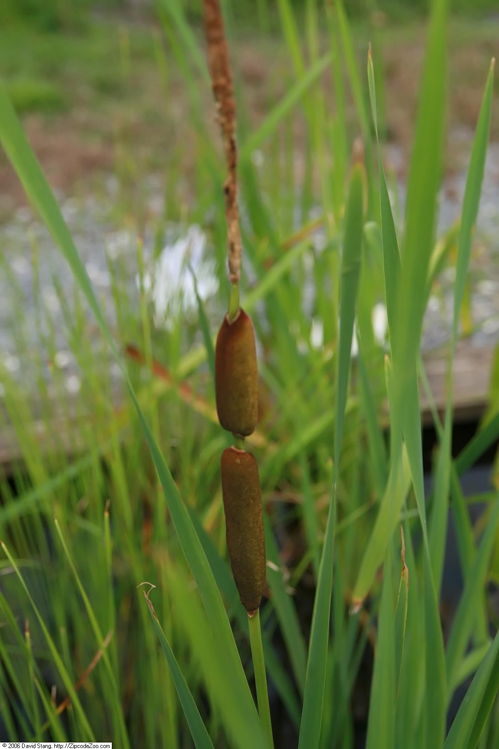 Location taken: Lilypons Water Gardens, Adamstown Maryland, USA. Names: Typha latifolia L., Aceña, Bût, Bardî, Bastone Acquatico, Boga de fulla ampla, Bossan doo, Bred Dunkjevle, Bredbladet Dunhammer, Bredkaveldun, Bredt Dunkjevle, Breitblättriger Rohrkolben, Breitblättriger Rohrkolben, Breiter Rohrkolben, Breitt dunkjevle, broad leaved cattail, Broad-Leaf Cattail, Broad-Leaved Cat-Tail, Broadleaf Cattail, Broadleaf Cattail (Usa), Bulrush, Candela, Cat´s Tail, Cat's Tail, Cattail, Cattail (Usa), Common Cat-Tail, Common Cattail, Cooper´s Reed, Cossack Asparagus, Cynffon y Gath, Dâdî, Dunkjevle, Enea, Espadaña Ancha, Espadaña Común, Espadaina, Flags, Gama, Giant Reed-Mace, Great Cattail, Great Reed-Mace, Grote lampepoetser, Grote Lisdodde, Grutte Tuorrebout, Jonc De La Passion, Junco De Estretas, Junco De La Pasión, Kuan Ye Xiang Pu, Laialehine hundinui, Leveäosmankäämi, Leveäosmankäämi, Lisca a Foglie Larghe, Lisca Maggiore, Macío, Marsh Pestle, massette, Massette à Grosses Feuilles, Massette &ag